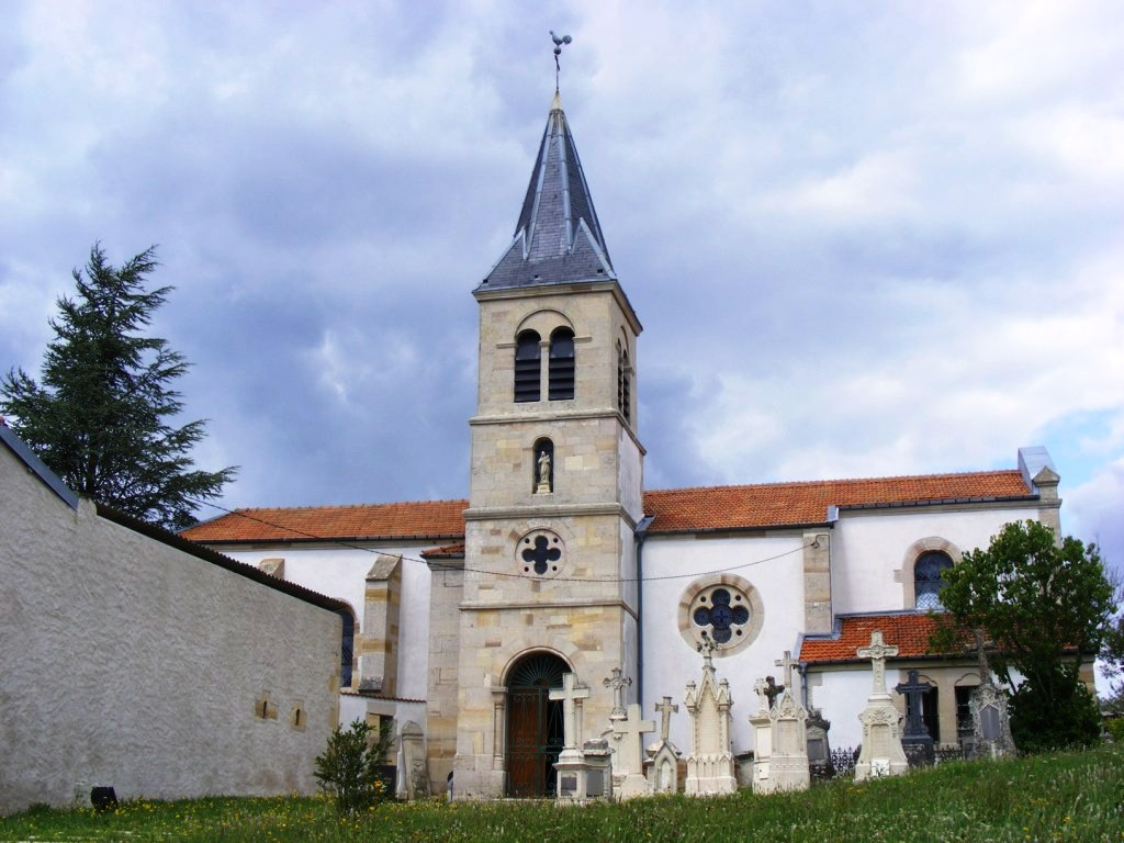 église de Lisle en barrois